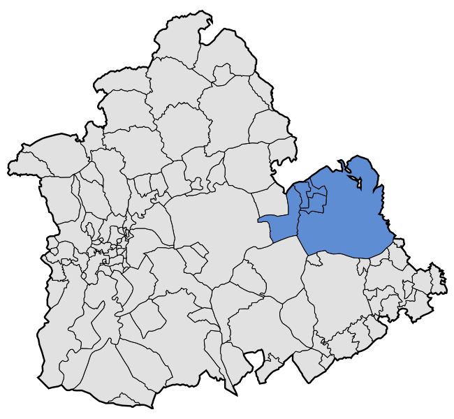 Map of Comarca de Écija, region of province of Sevilla, Spain